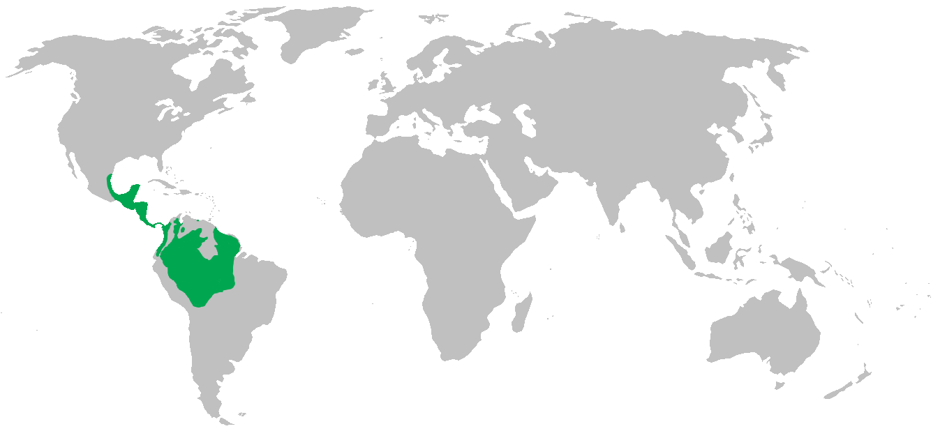 Range map of the spider monkey (Ateles). Self-made using file:BlankMap-World-noborders.png and IUCN data